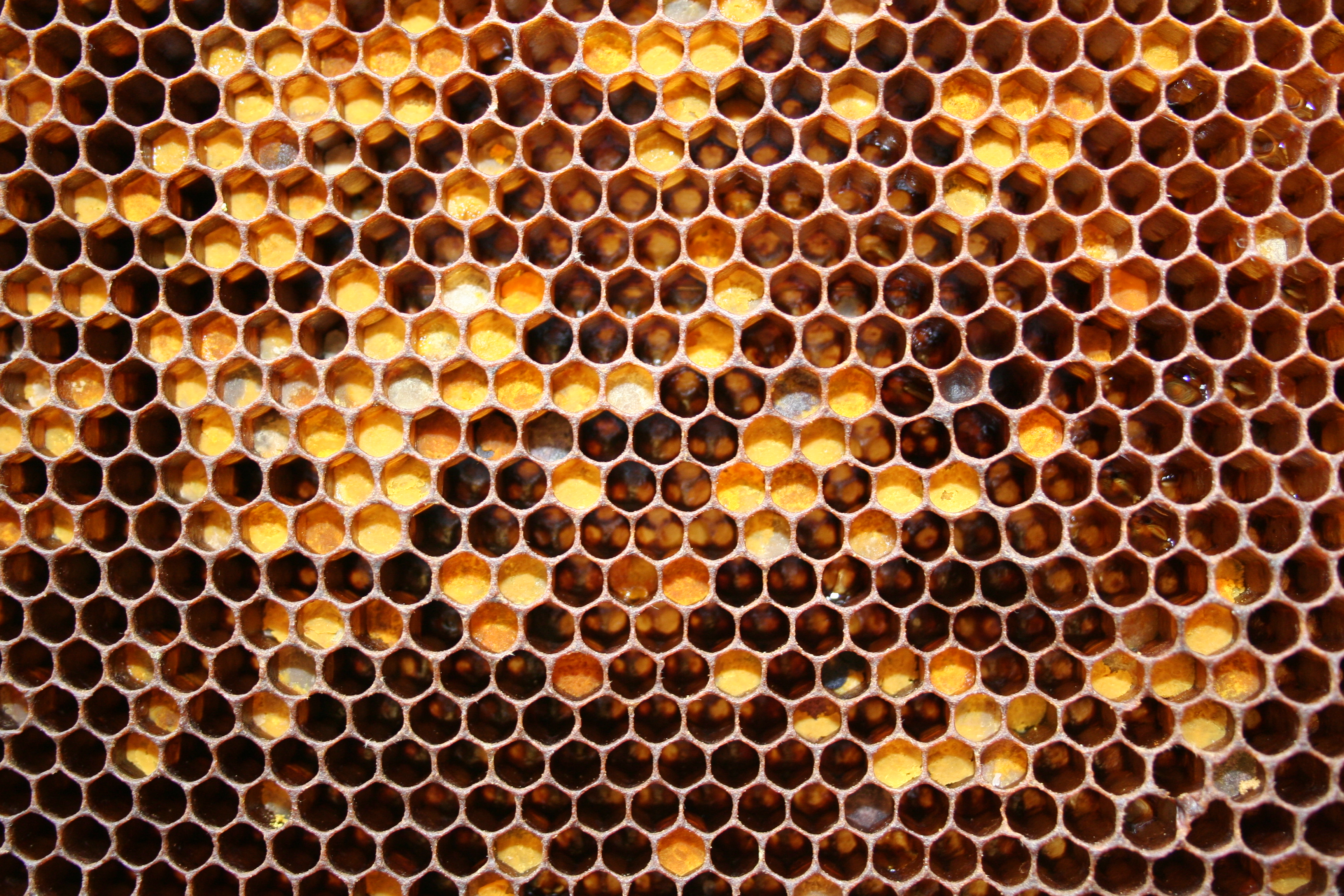 Bee propolis in honeycomb cells